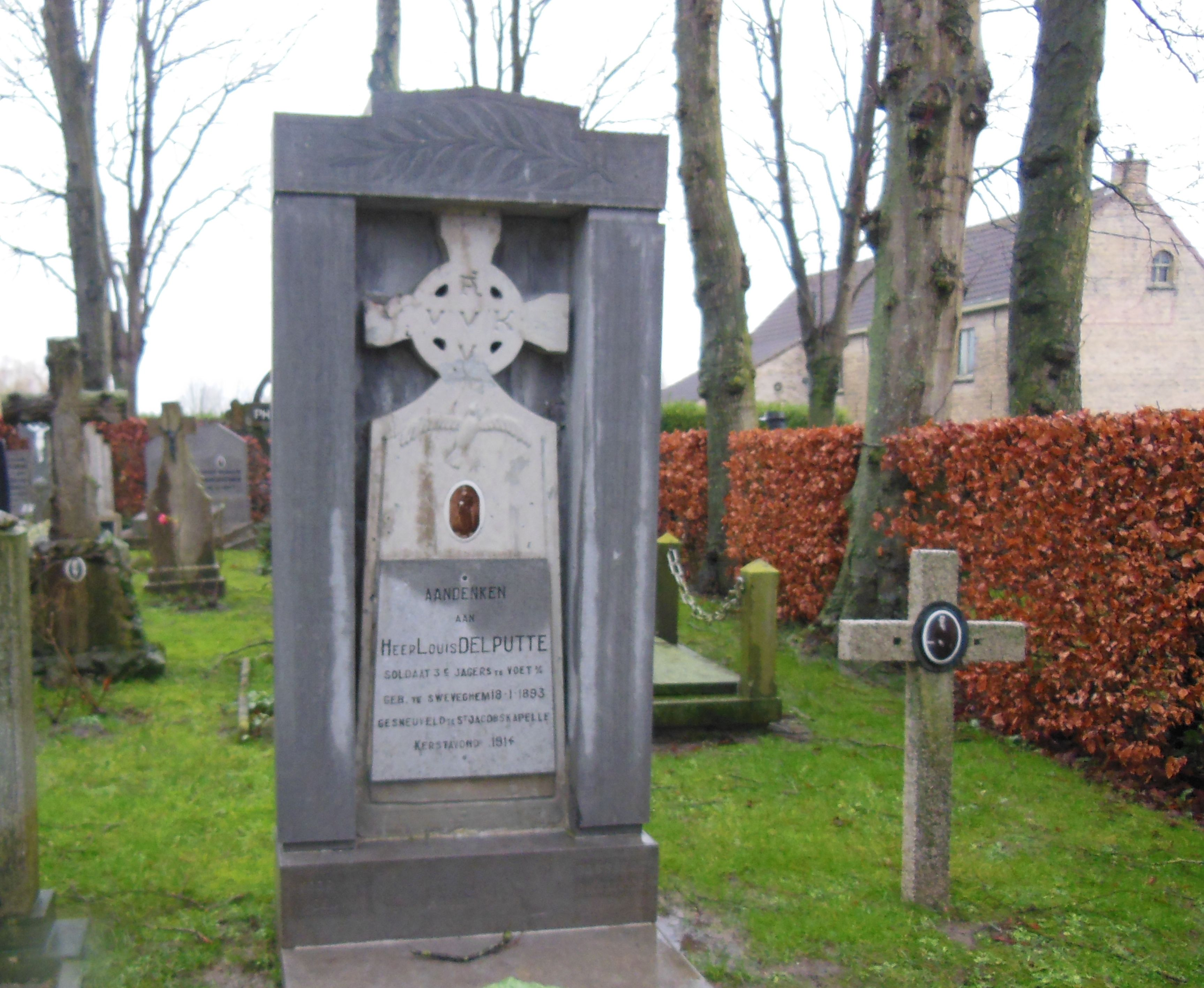 World War One Flemish nationalist gravestone, literally " a hero's gravestone", of Louis Delputte.